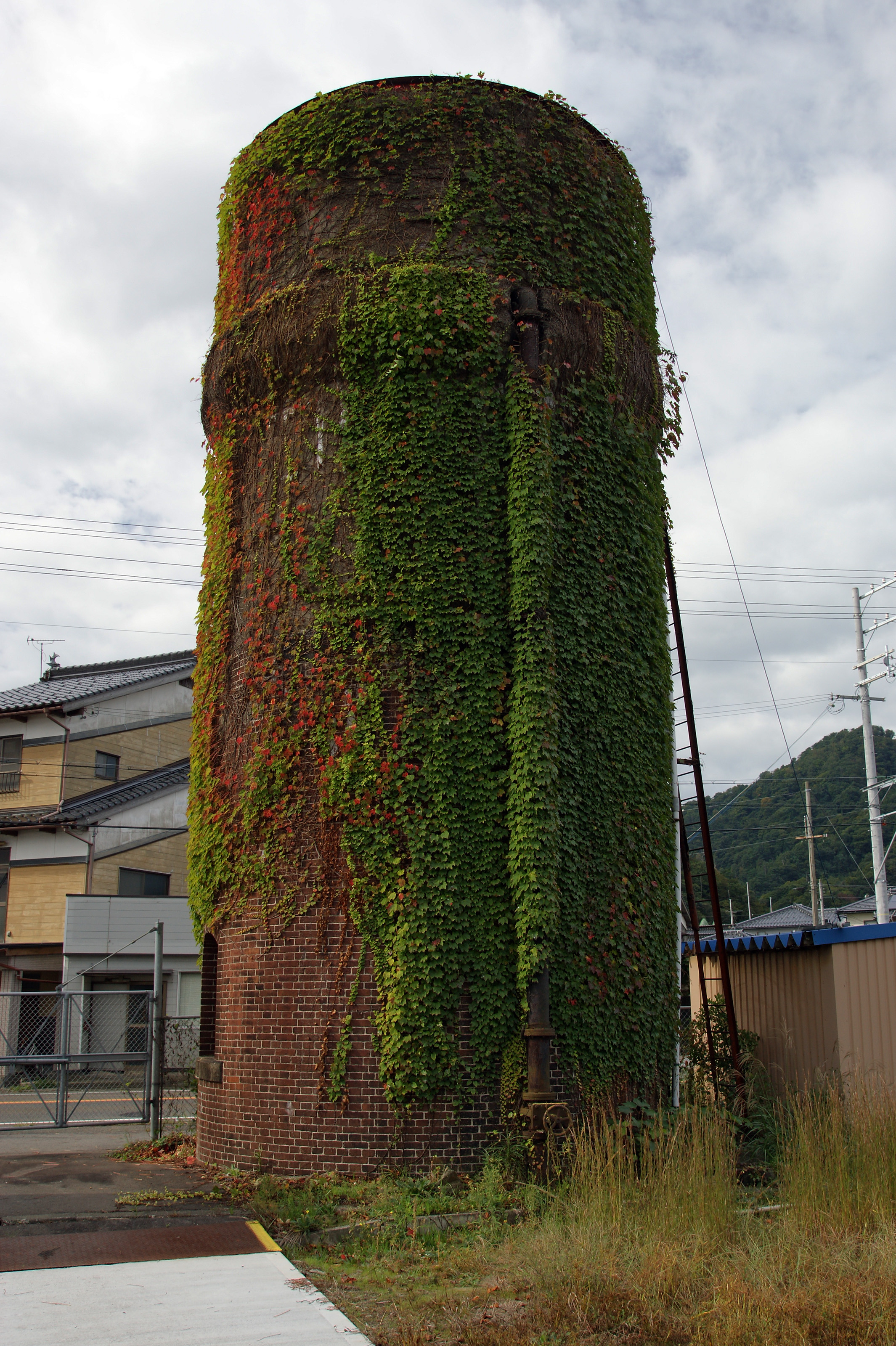 Water tower of Hamasaka Station in Shinonsen, Hyogo prefecture, Japan